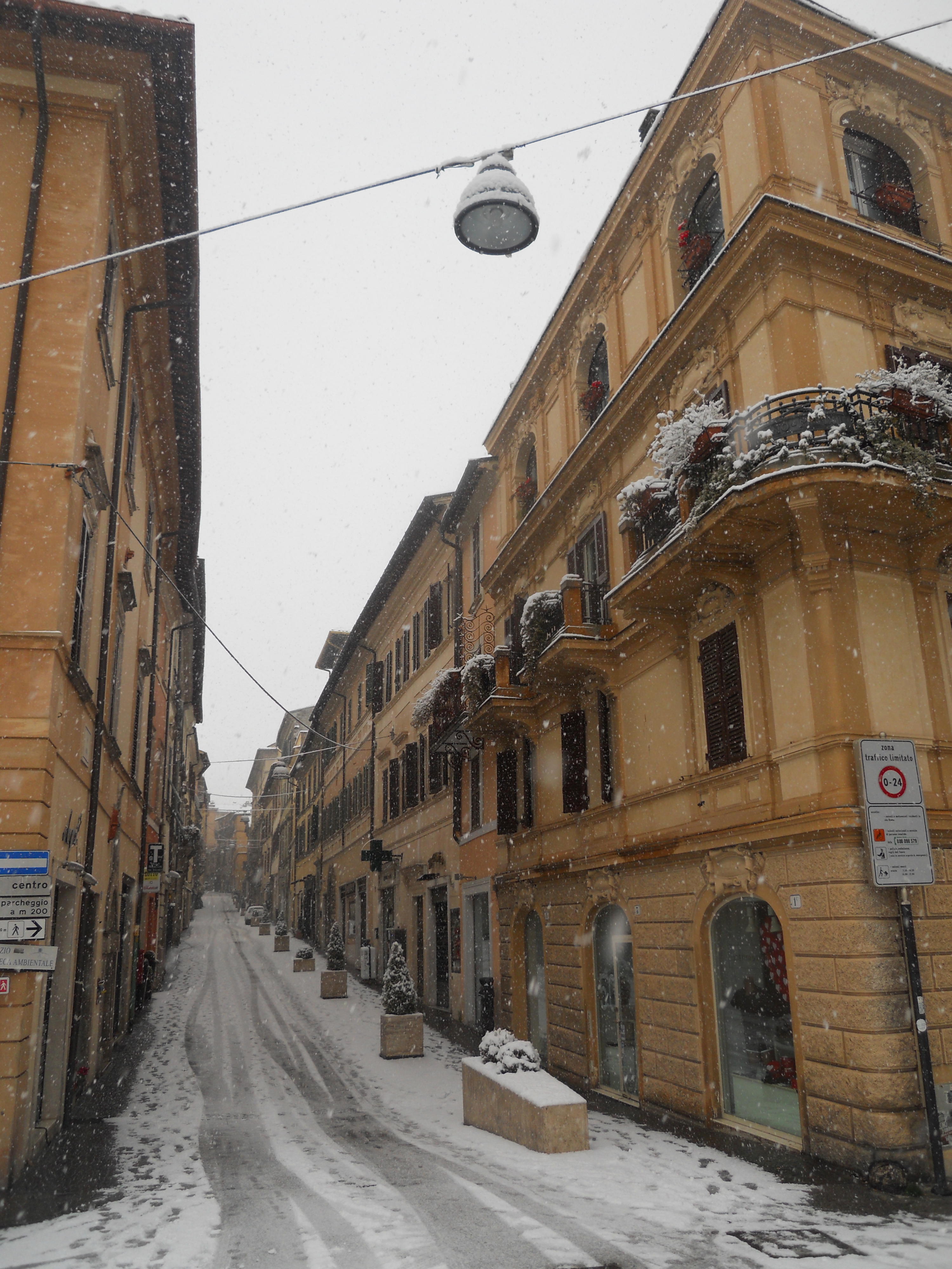 Via Roma during 3rd february 2012 snowfall - Rieti, Italy